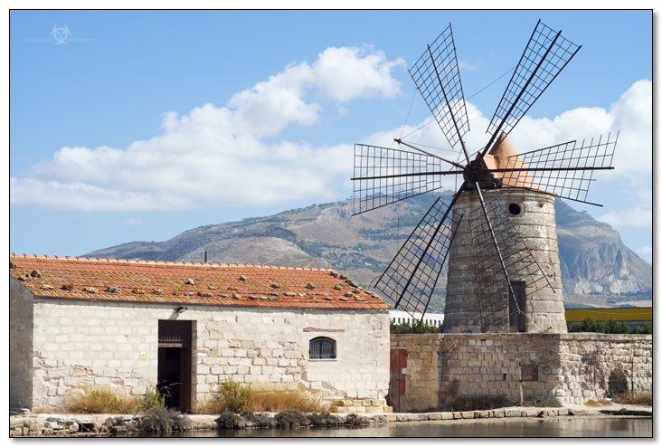 A picture taken yesterday at Trapani's Salt Road, Sicily, during a photowalk with others flickr contacts, and obtained from a single raw shot and after processed with Capture NX2. Have a nice day and many thanks for your comments :) You can use this image on websites, blogs or other media without ask my permission. This photo is under Creative Commons license. - My Flickriver See it on Fluidr